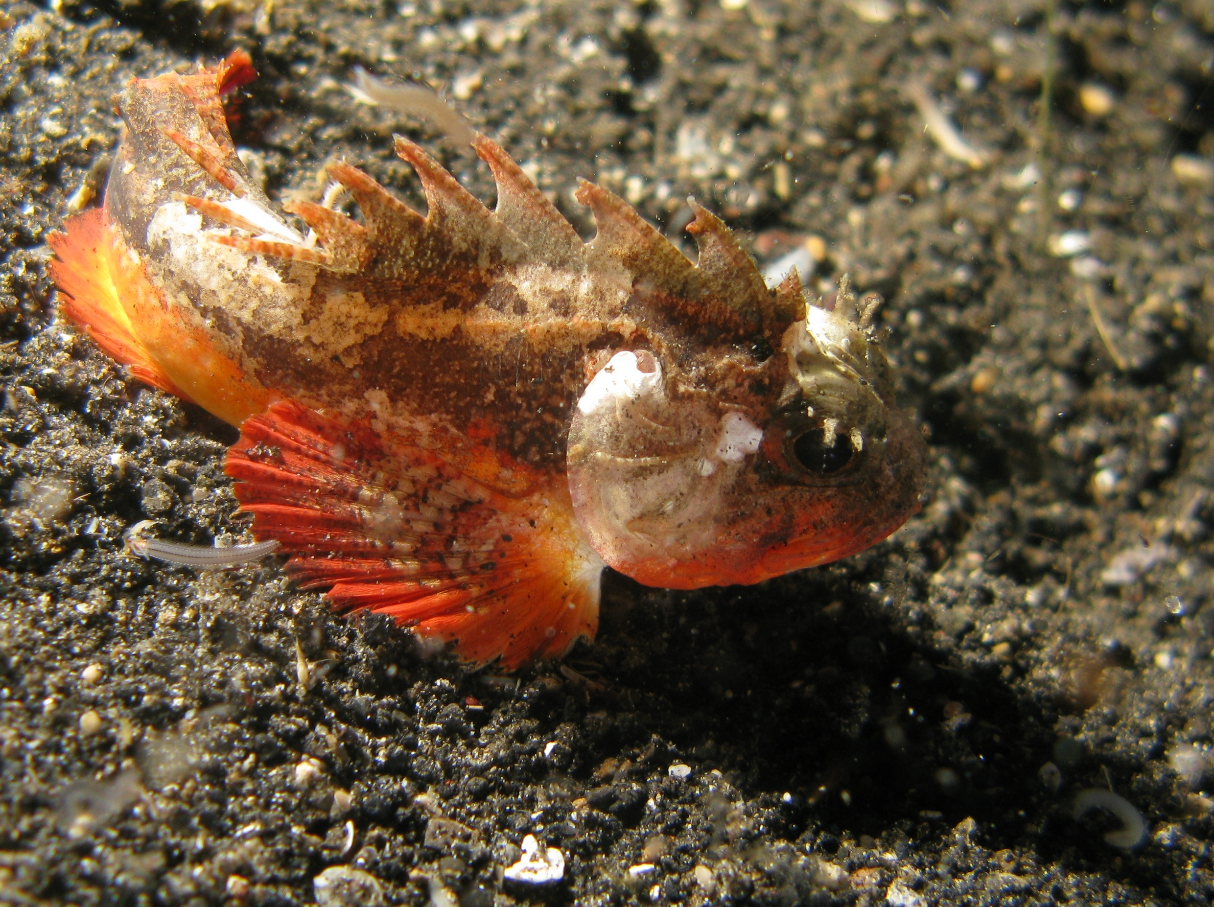 Whiteface Waspfish - Richardsonichthys leucogaster. Lembeh Strait, North Sulawesi, Indonesia.